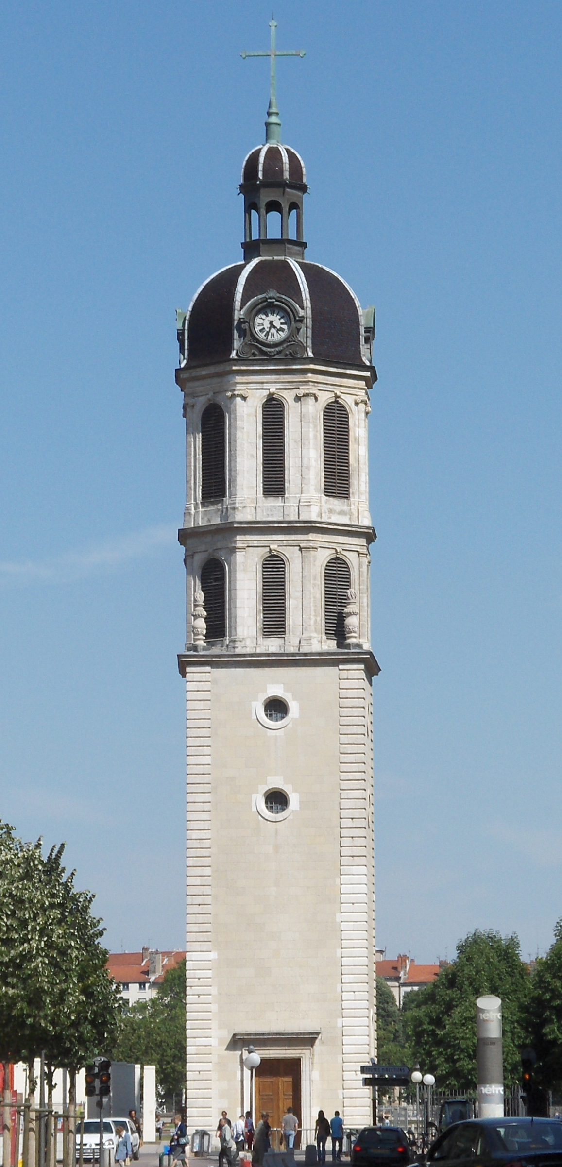 Bell tower of the old charity hospital, place Antonin-Poncet in Lyons, taken from the Place Bellecour. This is the only remaining part of the original hospital.